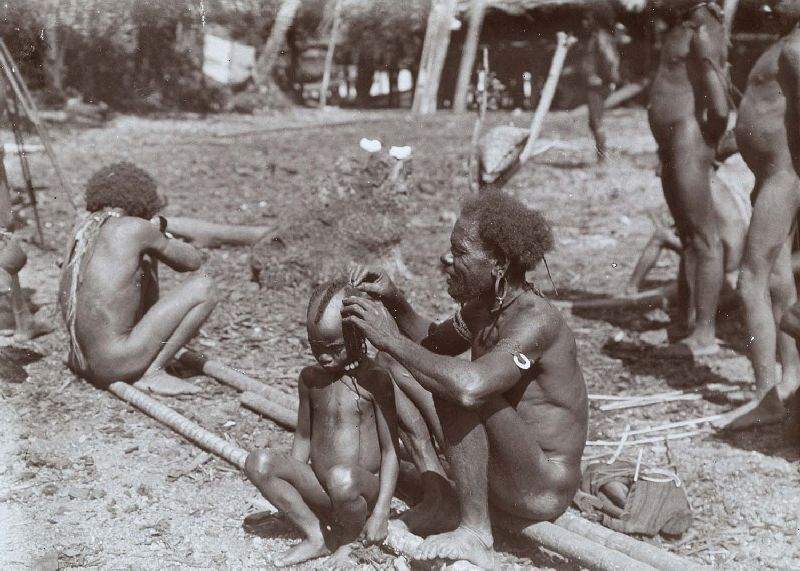 Subject: care, Man